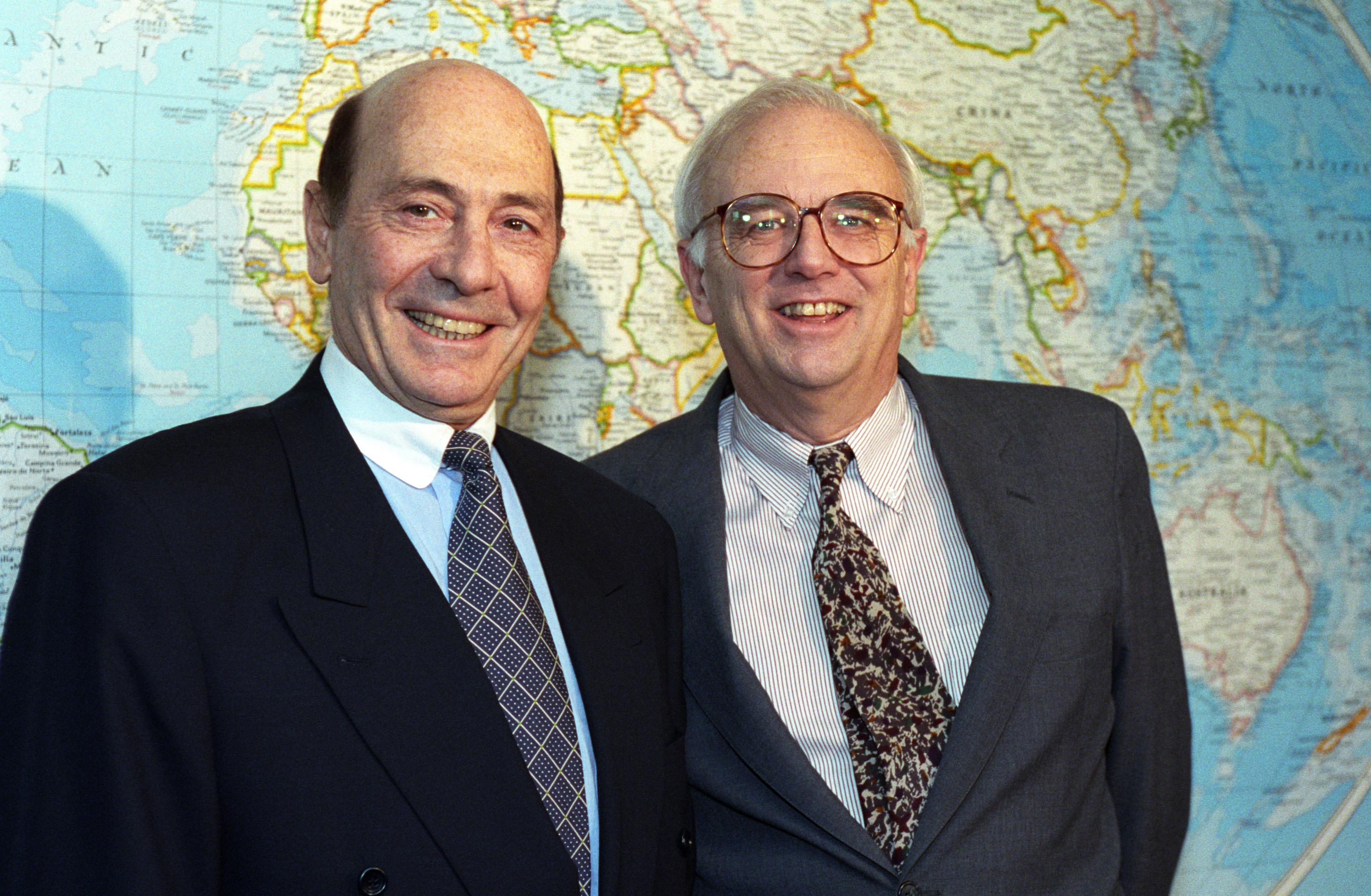 The Honorable Leslie "Les" Aspin, Jr., (right), U.S. Secretary of Defense, poses for a picture with Manfred Woerner, Secretary General of North Atlantic Treaty Organization (NATO), at the Pentagon, Washington, D.C., March 2, 1993. OSD Package No. A07D-0014